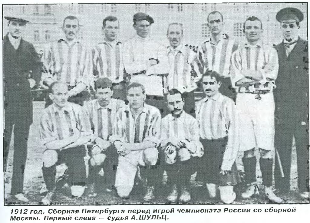 The team of St. Petersburg before the final match of the football Championship of the Russian Empire, 1912